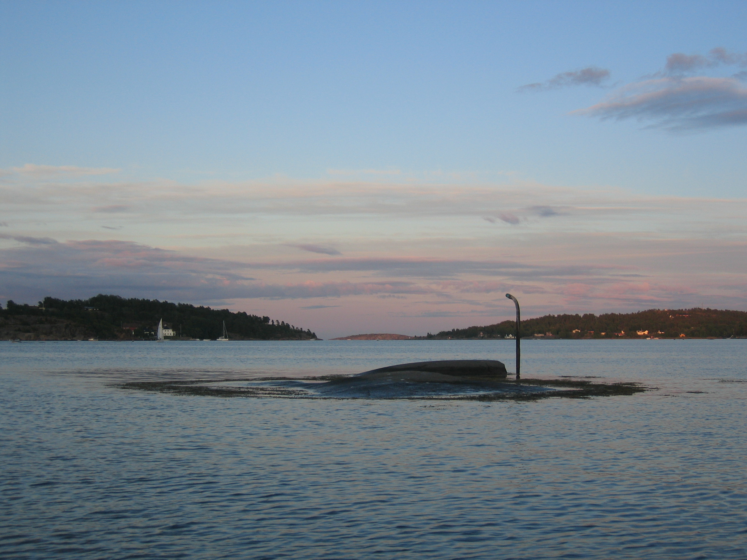 Jacobskjær, a navigation sign from the time of the sailing ships. Tjøme, Norway.